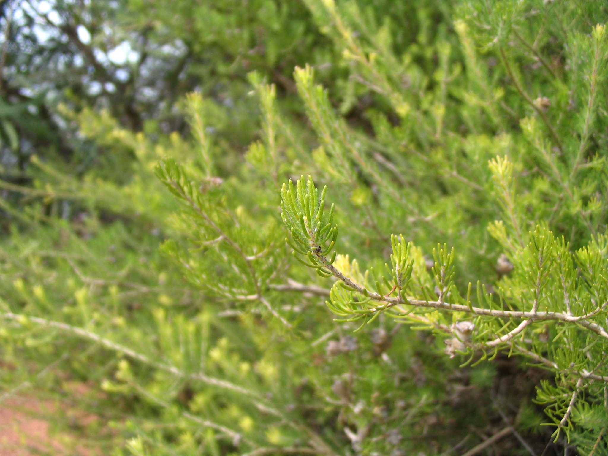 Closeup of leaves of Eremaea ebracteata plant in Kings Park, Perth, Australia.